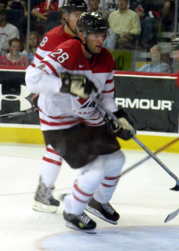 Ice hockey defenceman Robyn Regehr guards the front of his net during Hockey Canada's Red-White game at pre-Olympic camp in Calgary, Alberta.